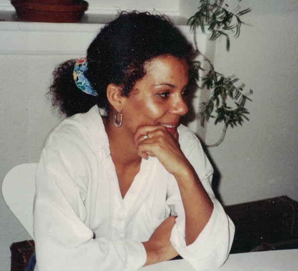 Philippa Bulgin, Danish singer 1967-1994